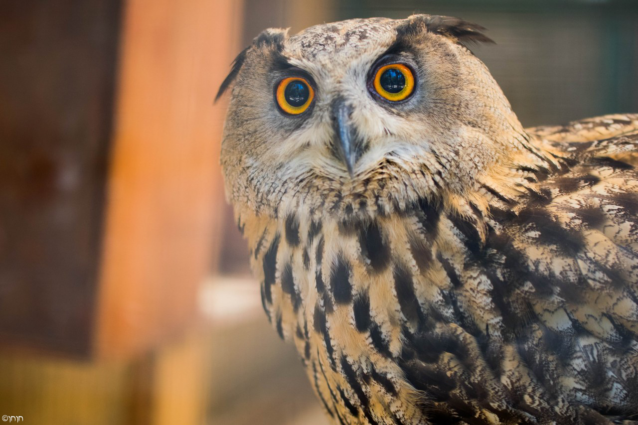 Wildlife and Plants of Israel